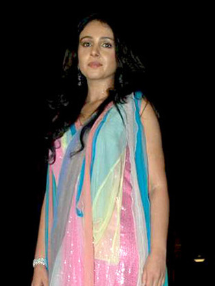 Suchitra Krishnamoorthi at Wine Viva 2011 Fashion Show